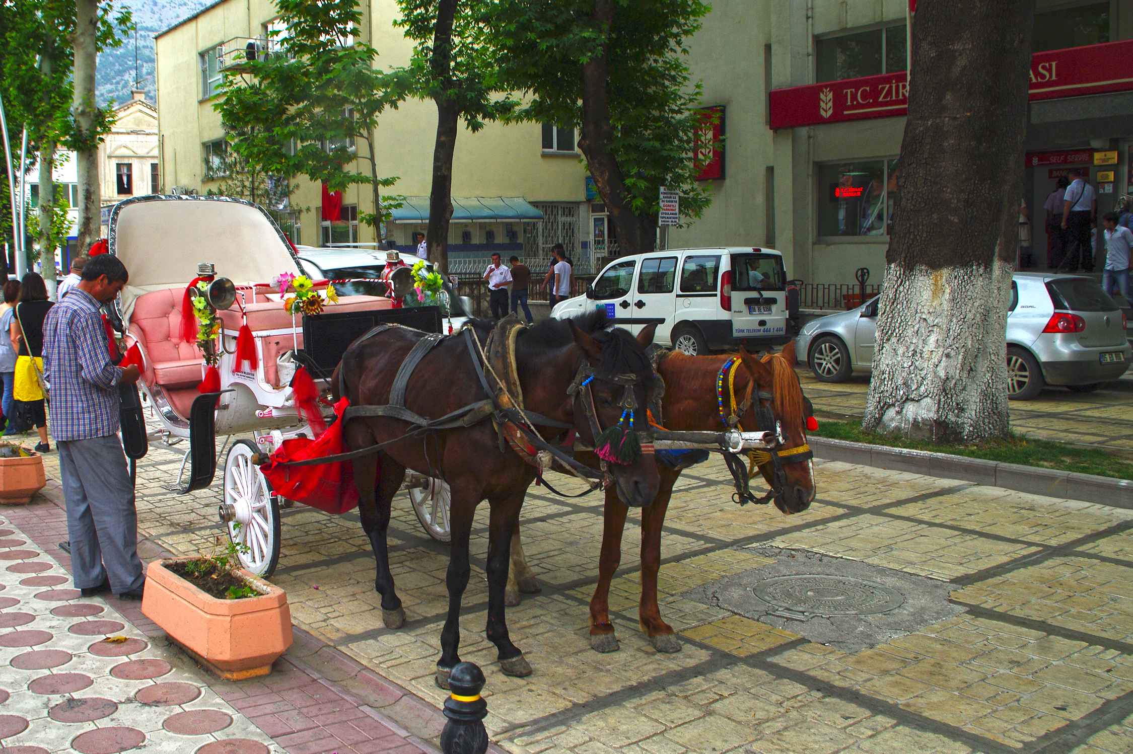 A phaeton in the downtown of Amasya.